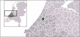 Location of Leiden